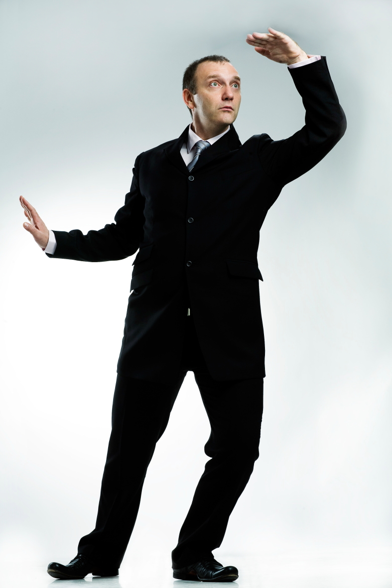 Marko Stojanović — Serbian actor, mime artist, cultural and humanitarian activist Српски (ћирилица): Марко Стојановић — српски глумац, пантомимичар, културни и хуманитарни радник Srpski (latinica): Marko Stojanović — srpski glumac, pantomimičar, kulturni i humanitarni radnik